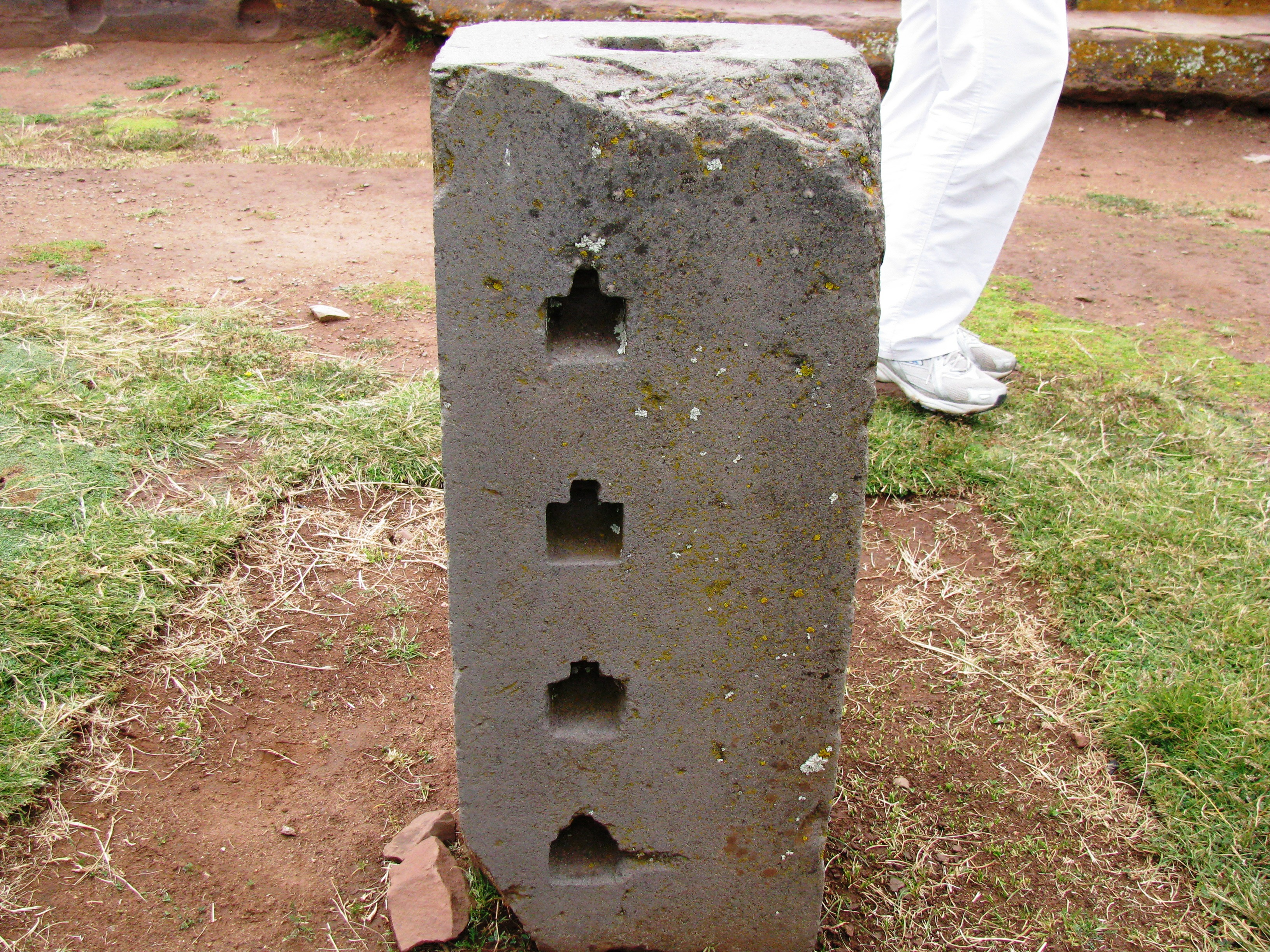 Puma Punku ancient ethernet ports